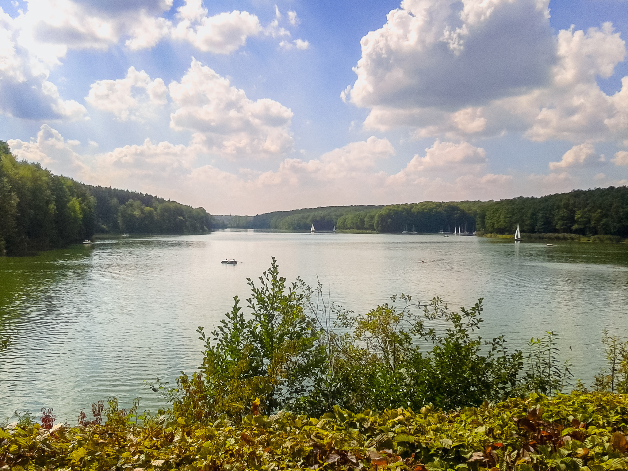 "Ellertshäuser See", a quarry pond in Lower Franconia